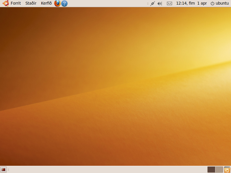 Screenshot of Ubuntu 9.10